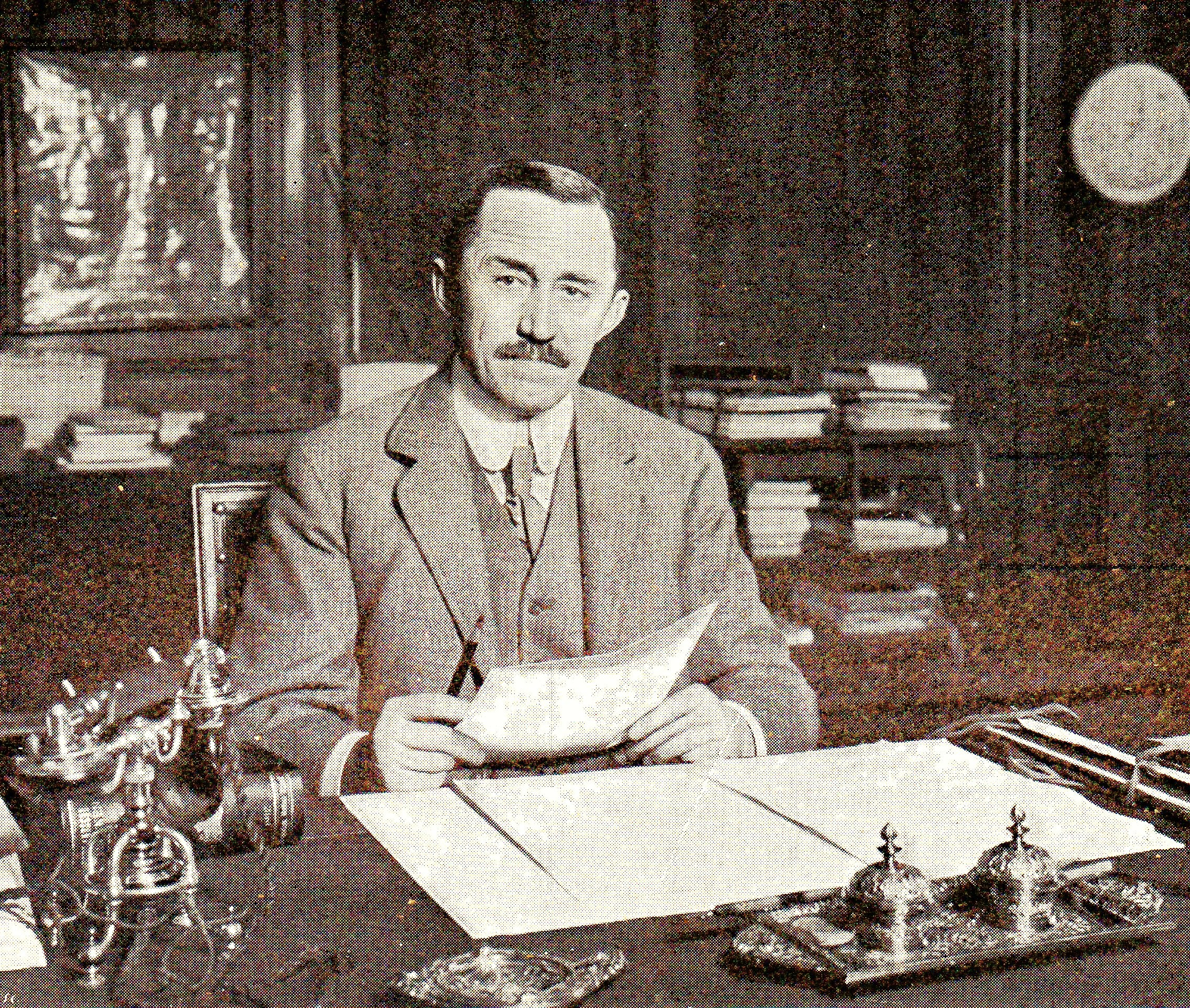 E.R.H. Regout